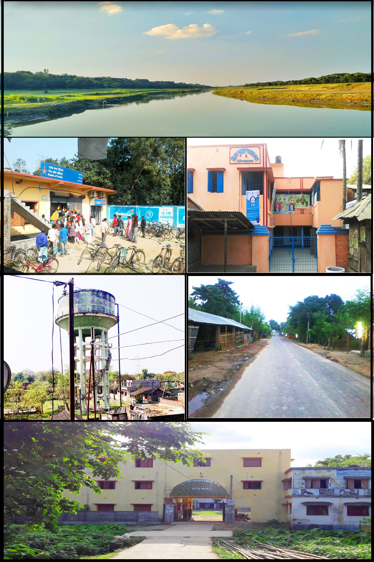 Sattari Village View